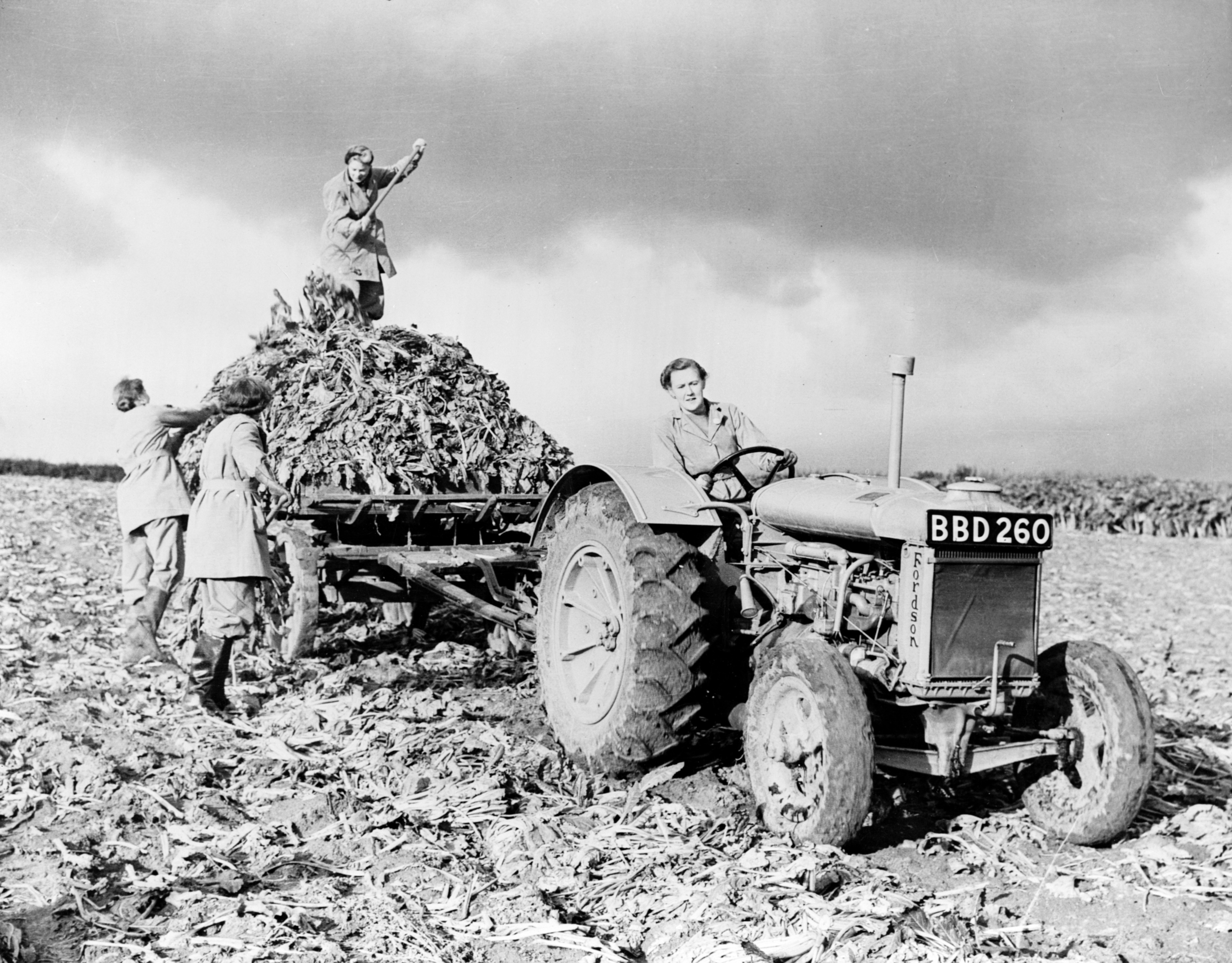 Members of the British Women's Land Army harvesting beets. A woman is driving the Fordson tractor in the foreground, while three others with pitchforks are loading the beetroot's on the truck behind the tractor.